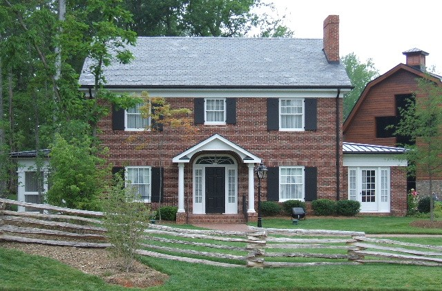 Billy Graham Homestead and Library